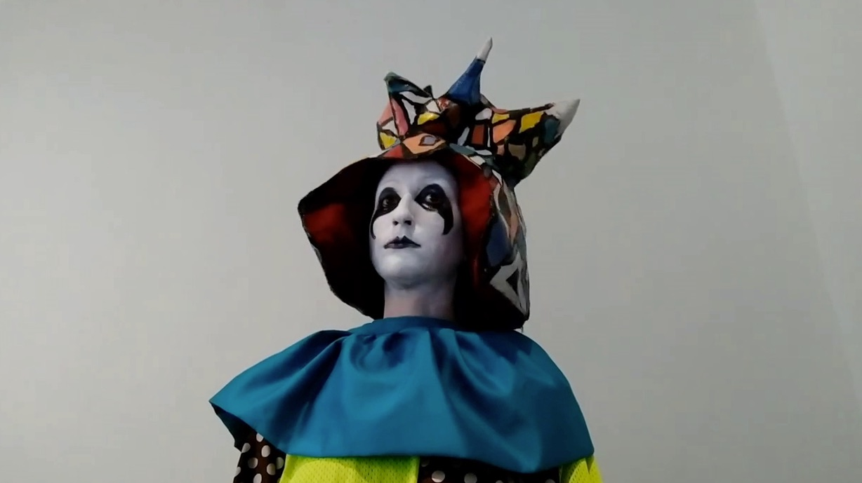 Rachel Mason performing Donald Trump's Inaugural Address in real time as Futureclown, January 20, 2017